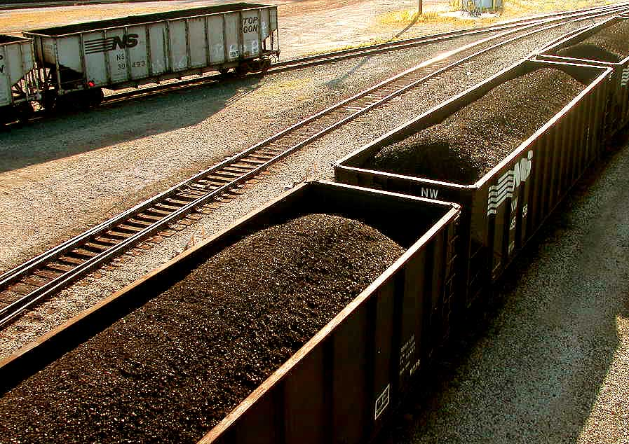 Coal cars in Ashtabula, Ohio. (taken Sept. 26, 2004)